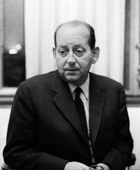 Photograph of the Estonian composer Eduard Tubin (1905–1982).